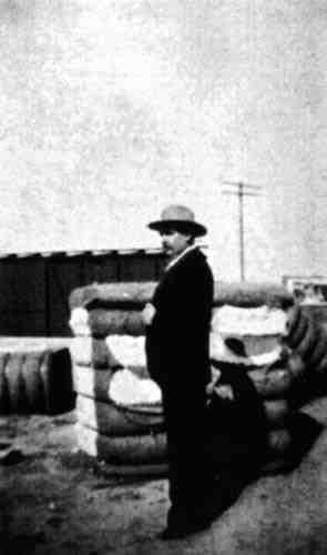 Photograph of Robert E. Howard. Robert E. Howard with Moustache. Last known picture of Howard.